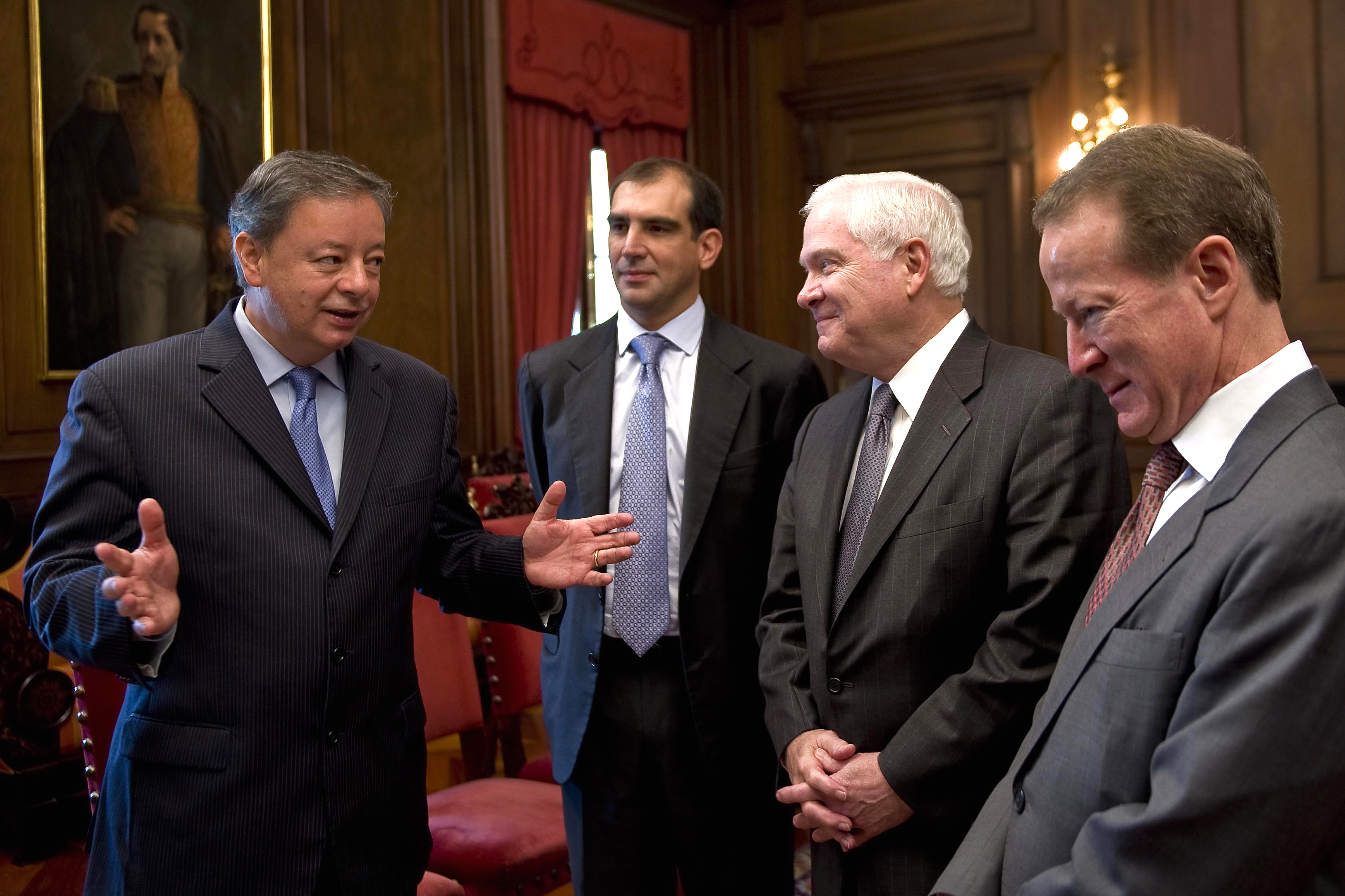 Colombian Defense Minister Gabriel Silva, U.S. Defense Secretary Robert M. Gates,center right, and U.S. Ambassador to Colombia William R. Brownfield talk to one another at the Presidential Palace before meeting with President Alvaro Uribe in Bogota.